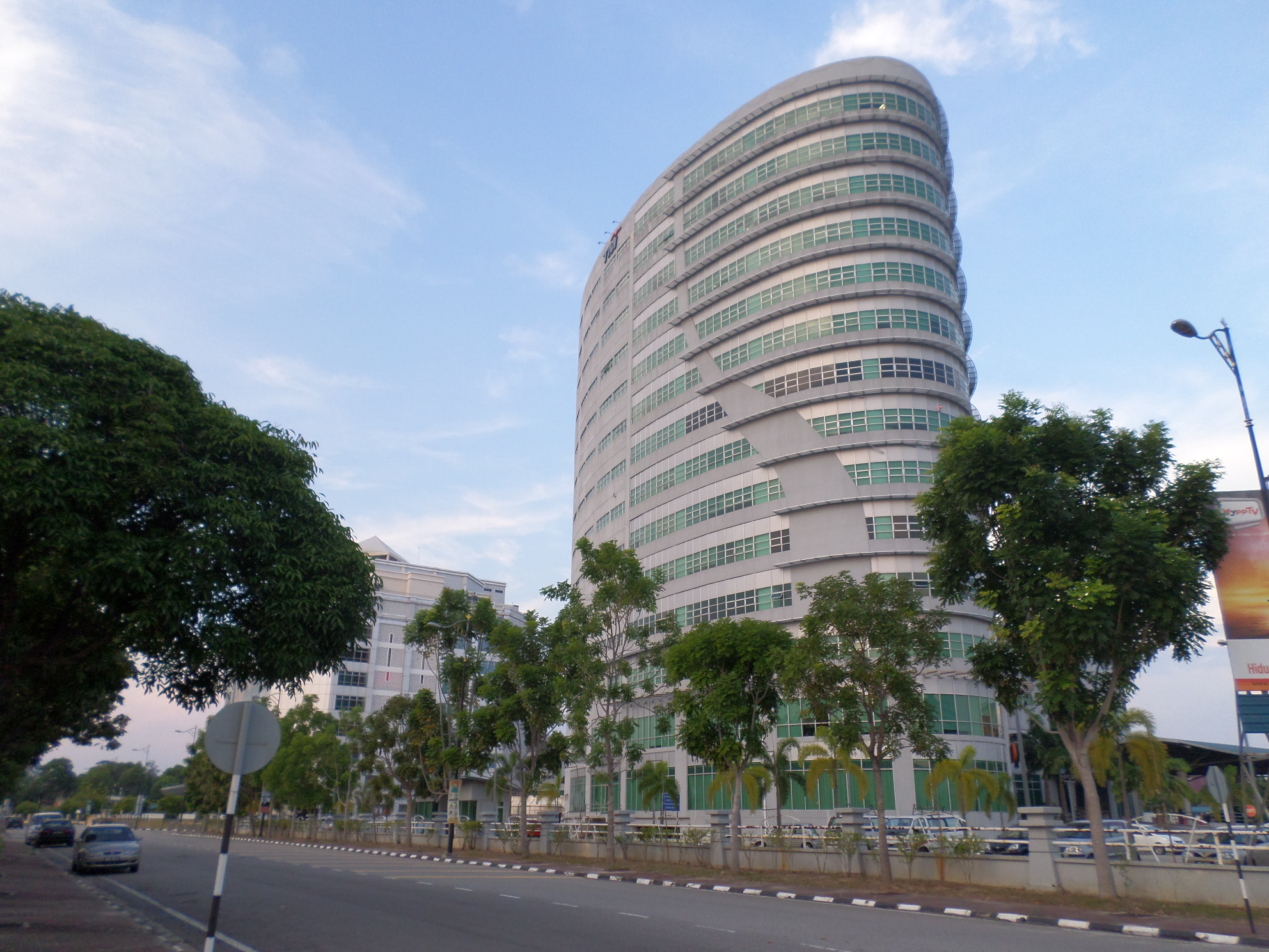 TM MITC Ayer Keroh, Ayer Keroh, Central Melaka, Melaka, MalaysiaBahasa Melayu: TM MITC Ayer Keroh, Ayer Keroh, Melaka Tengah, Melaka, Malaysia